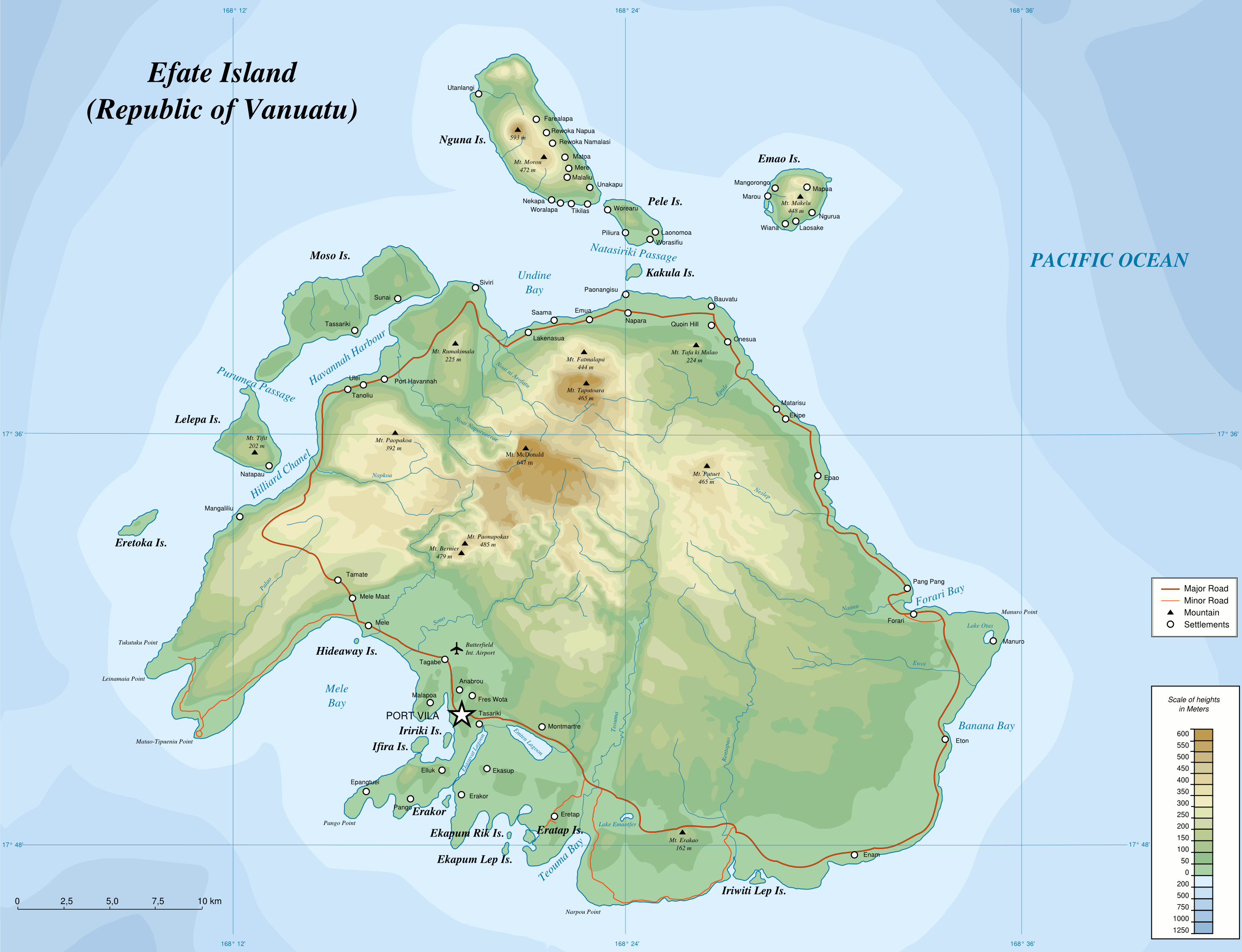 Topographic Map of Efate Island (Vanuatu) - PNG version